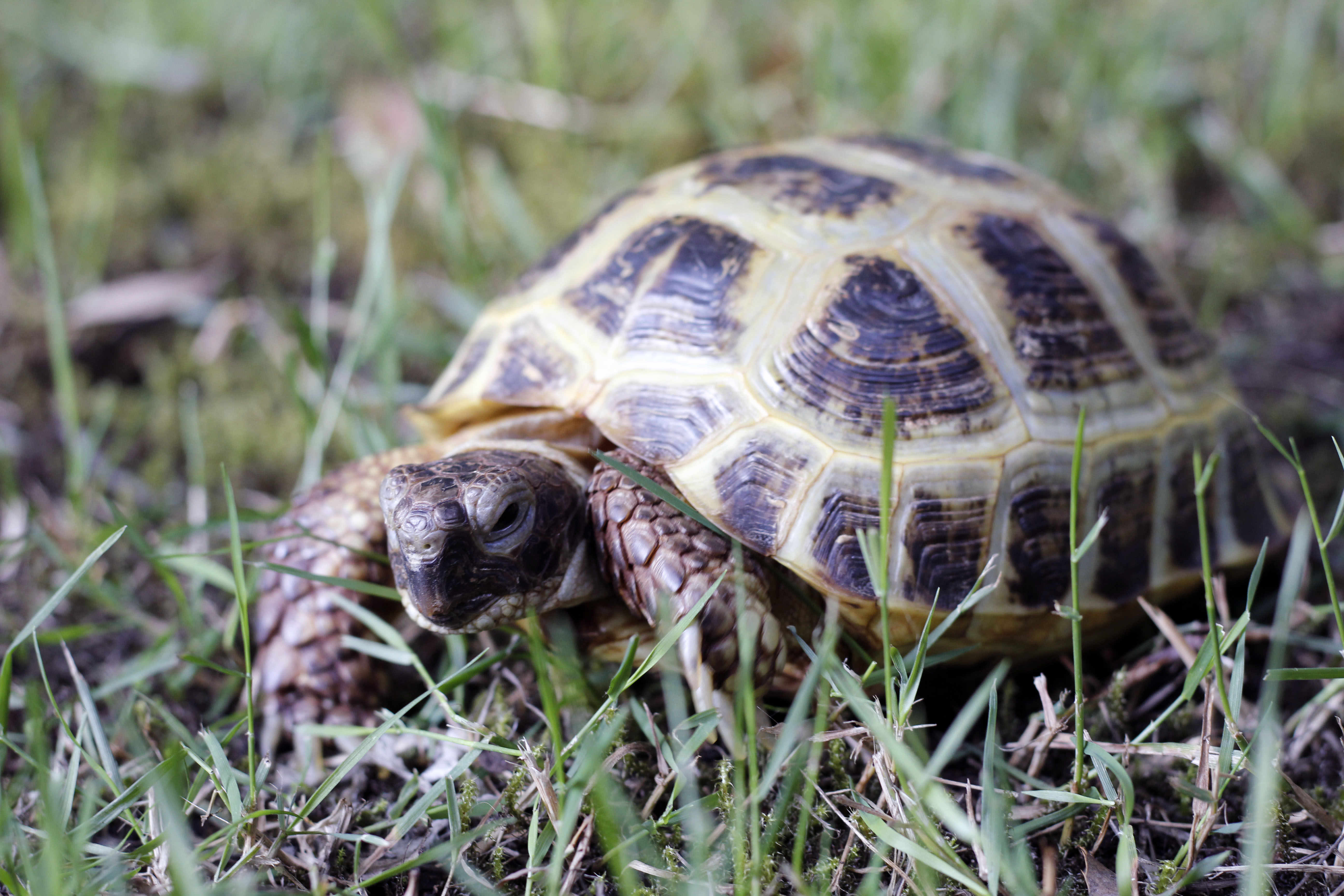 Photo of a Russian Tortoise named "Tot"